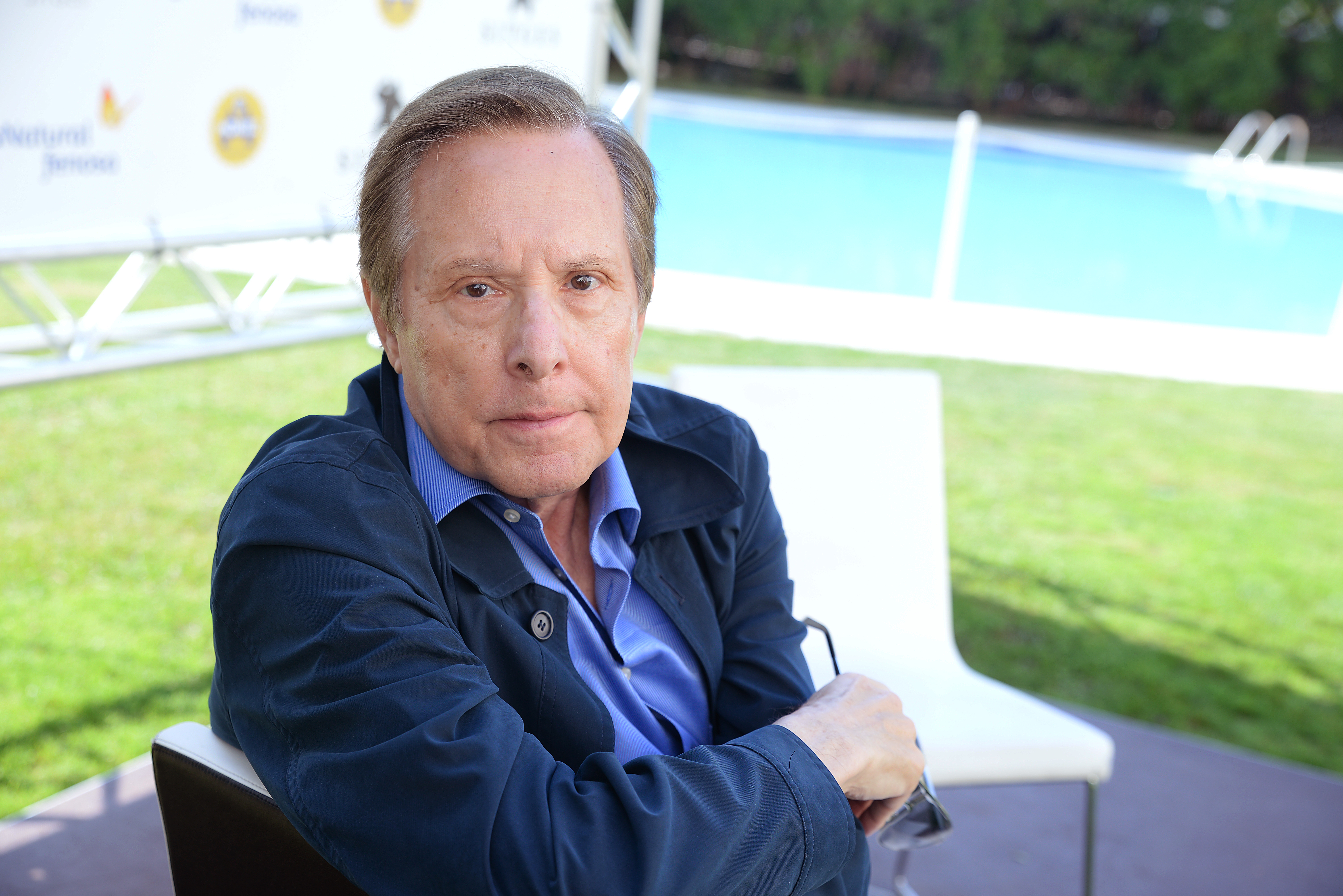 Filmmaker William Friedkin, photographed during the 2017 Sitges Film Festival